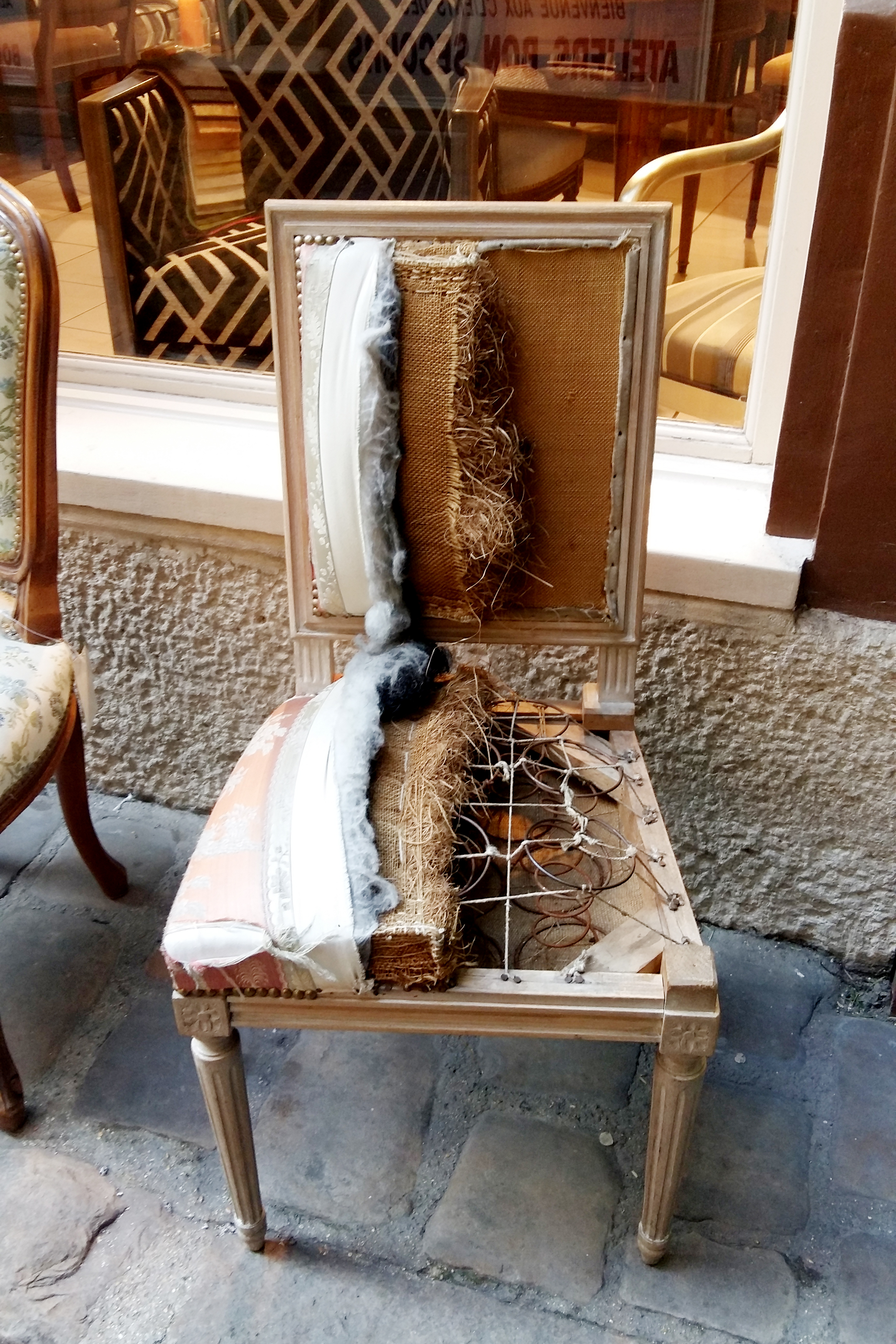 Handcrafted chair cut so its construction details can be seen, Passage du Chantier, 11th arrondissement of Paris, France.